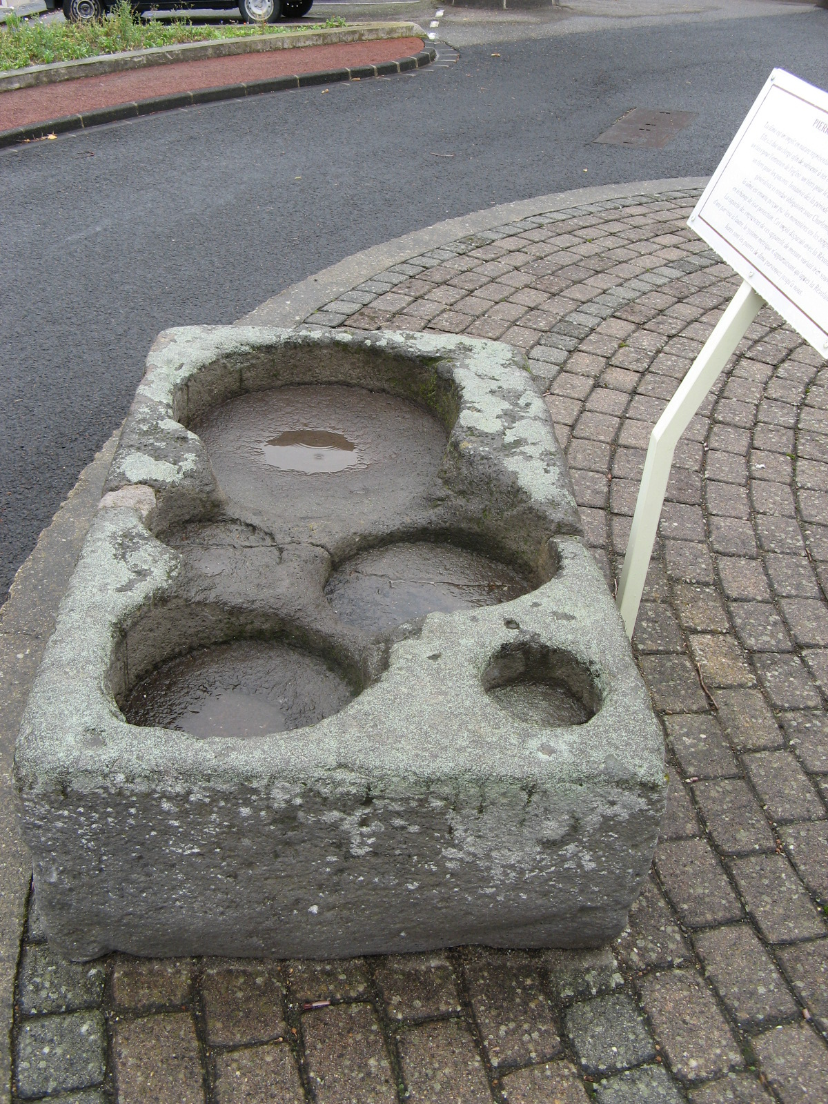 "Stone of the Dîme", Place de l’Orme, Châtel-Guyon, Auvergne, France